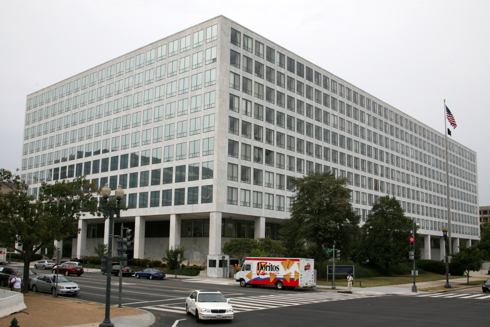 Orville Wright Federal Building, Federal Aviation Administration, Department of Transportation